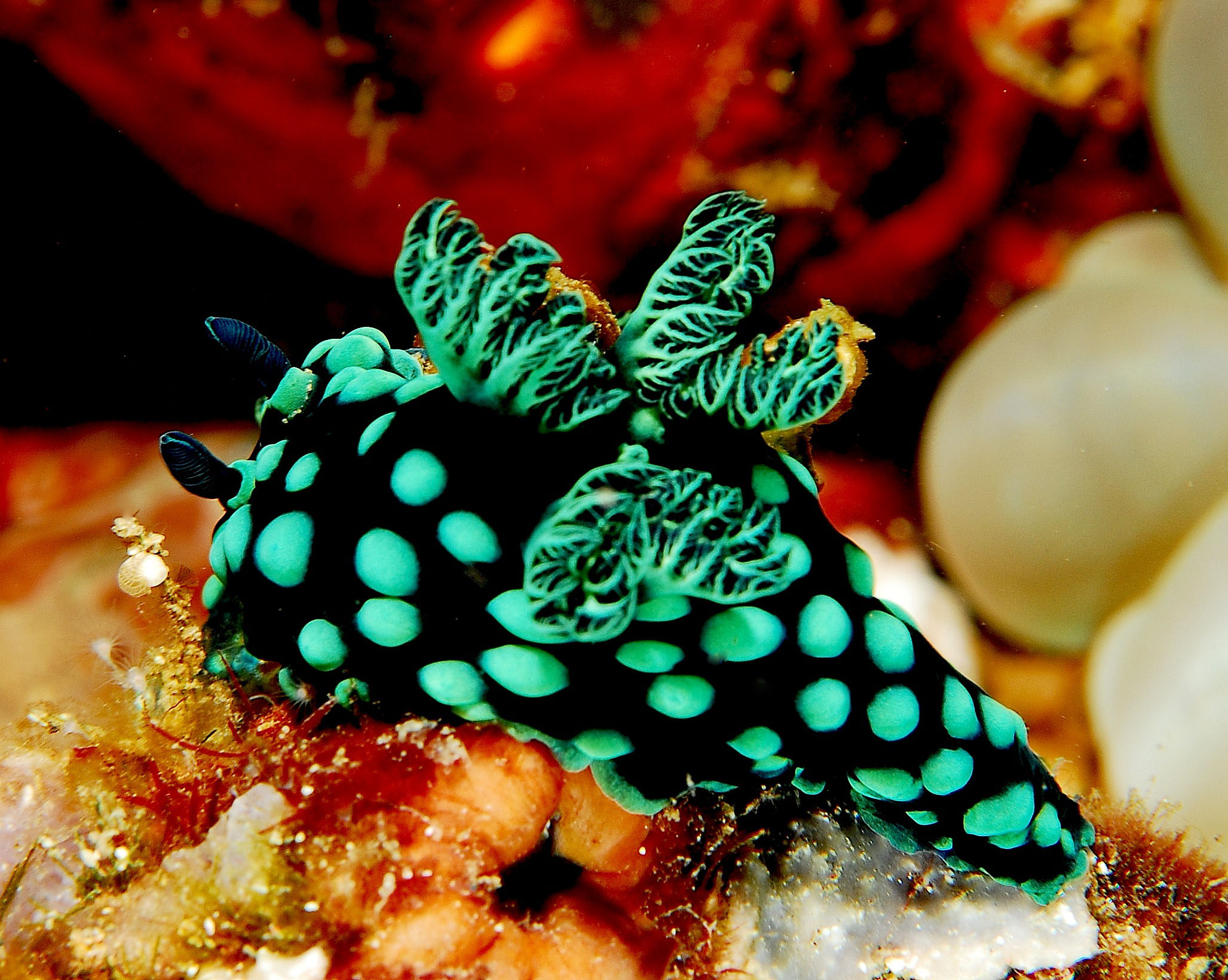 Nembrotha cristata